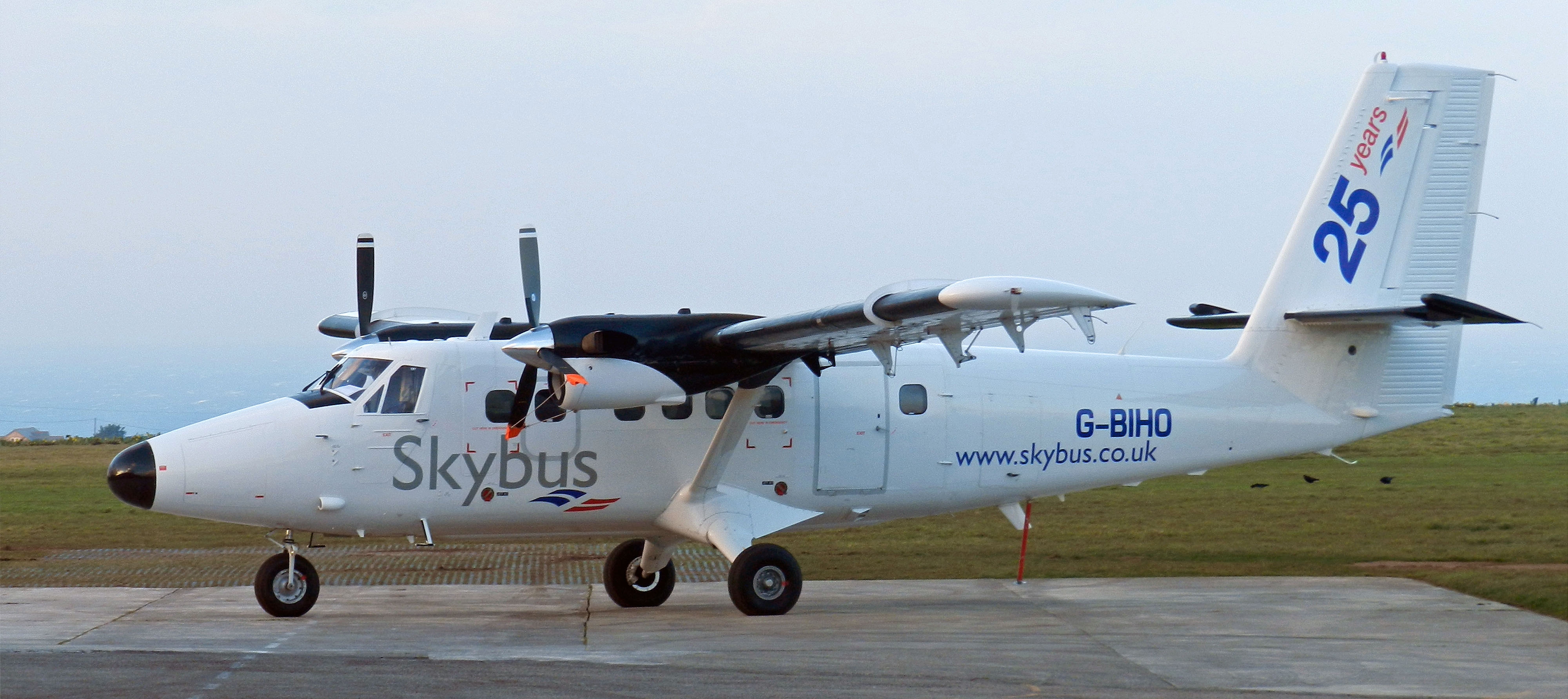 Isles of Scilly Skybus De Havilland Twin Otter G-BIHO